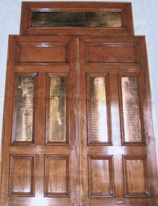 A photograph of the World War One memorial of Strand School, taken whilst the building and conversion work was being carried out on the former grammar school.